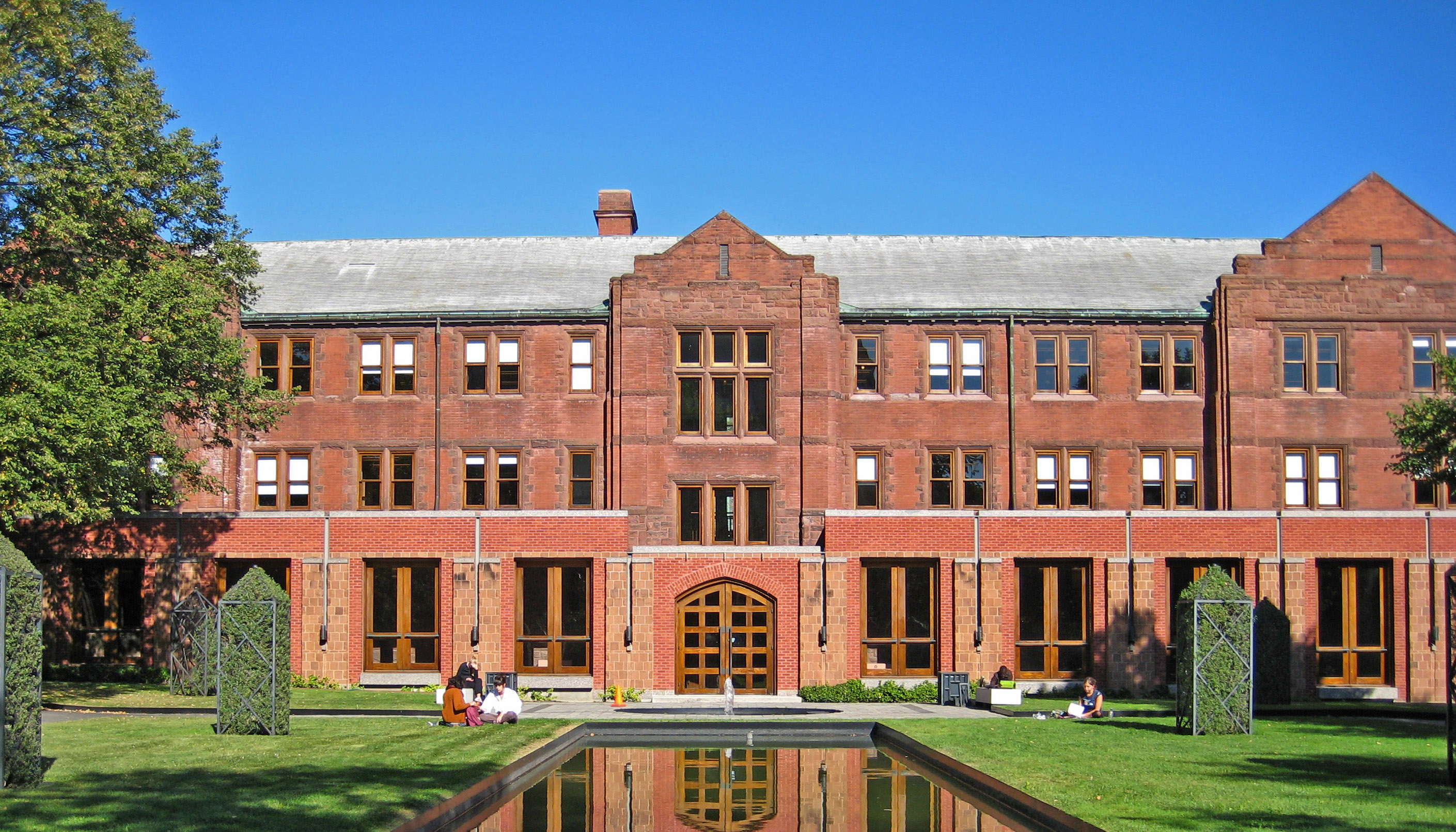 Munk Centre for International Studies